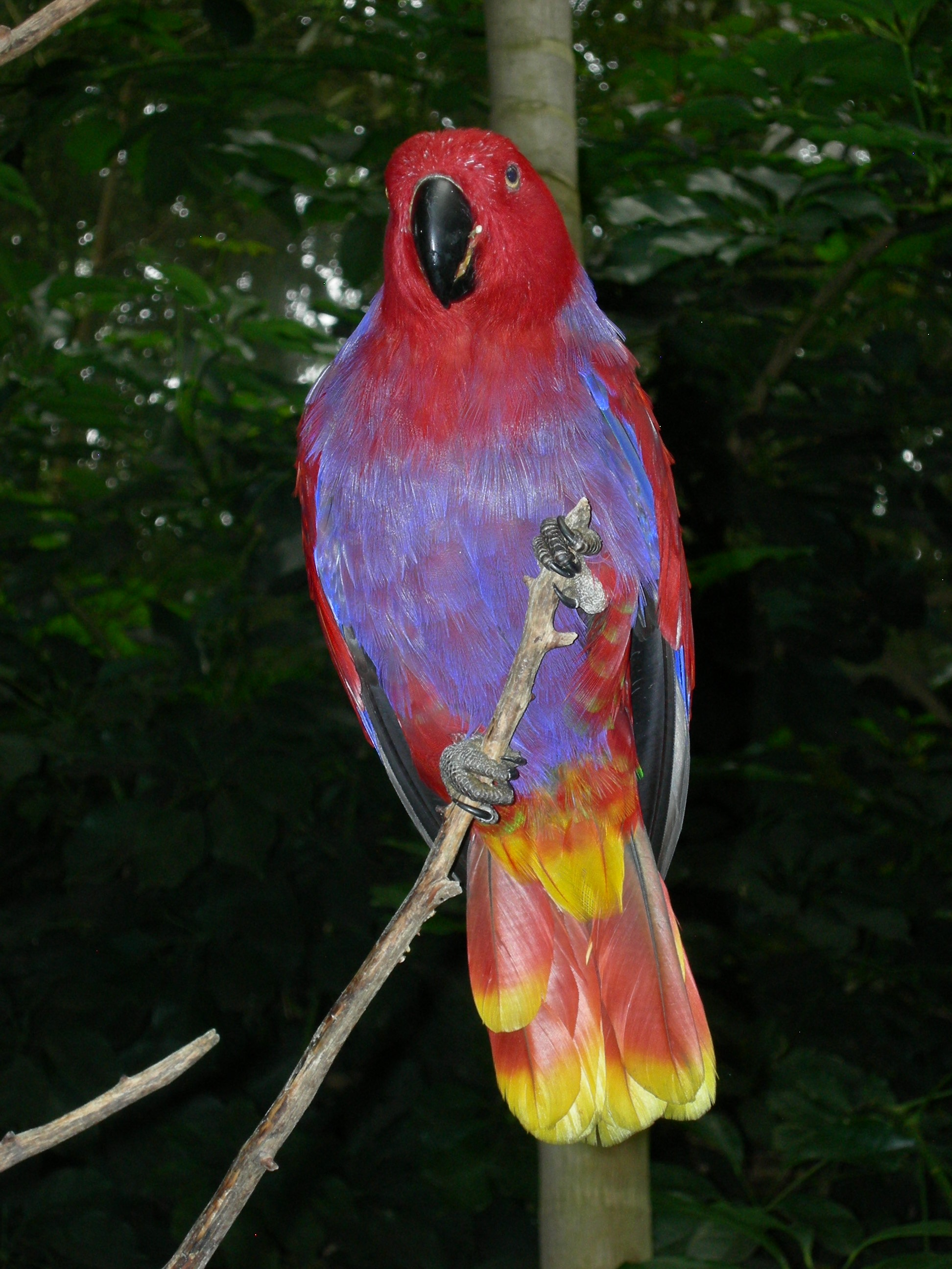 A female Eclectus Parrot at North Carolina Zoo, Asheboro, North Carolina, USA.